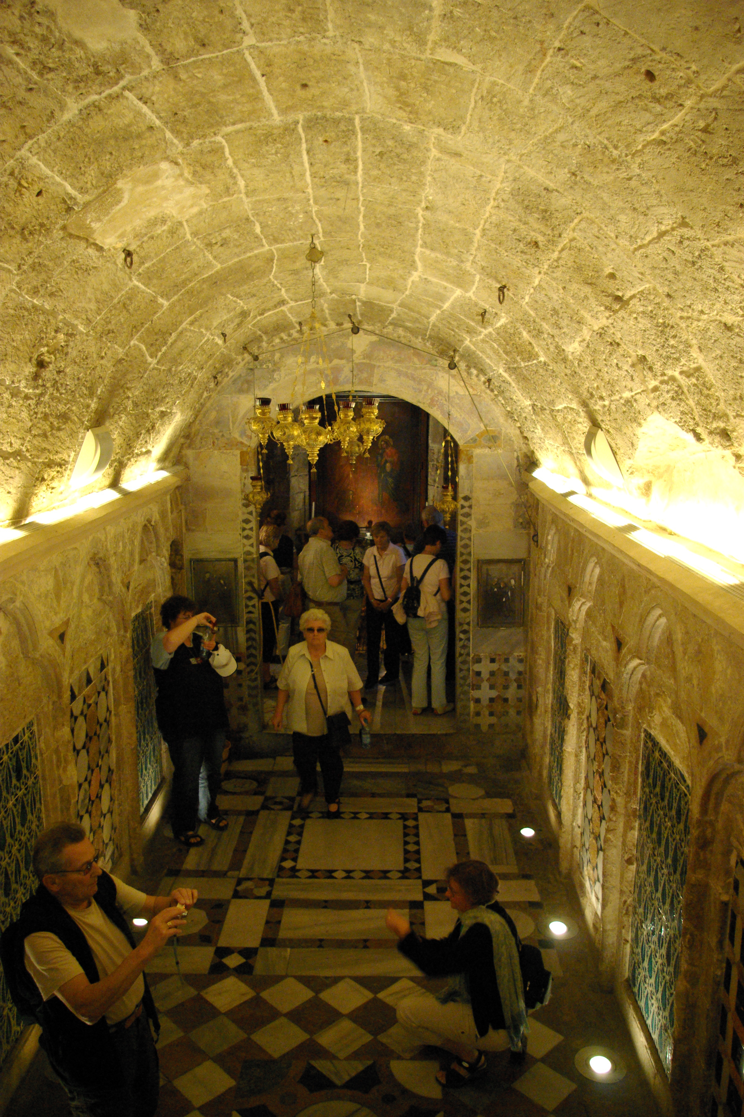 Mary's Well, Greek Orthodox Church of the Archangel Gabriel, Nazareth